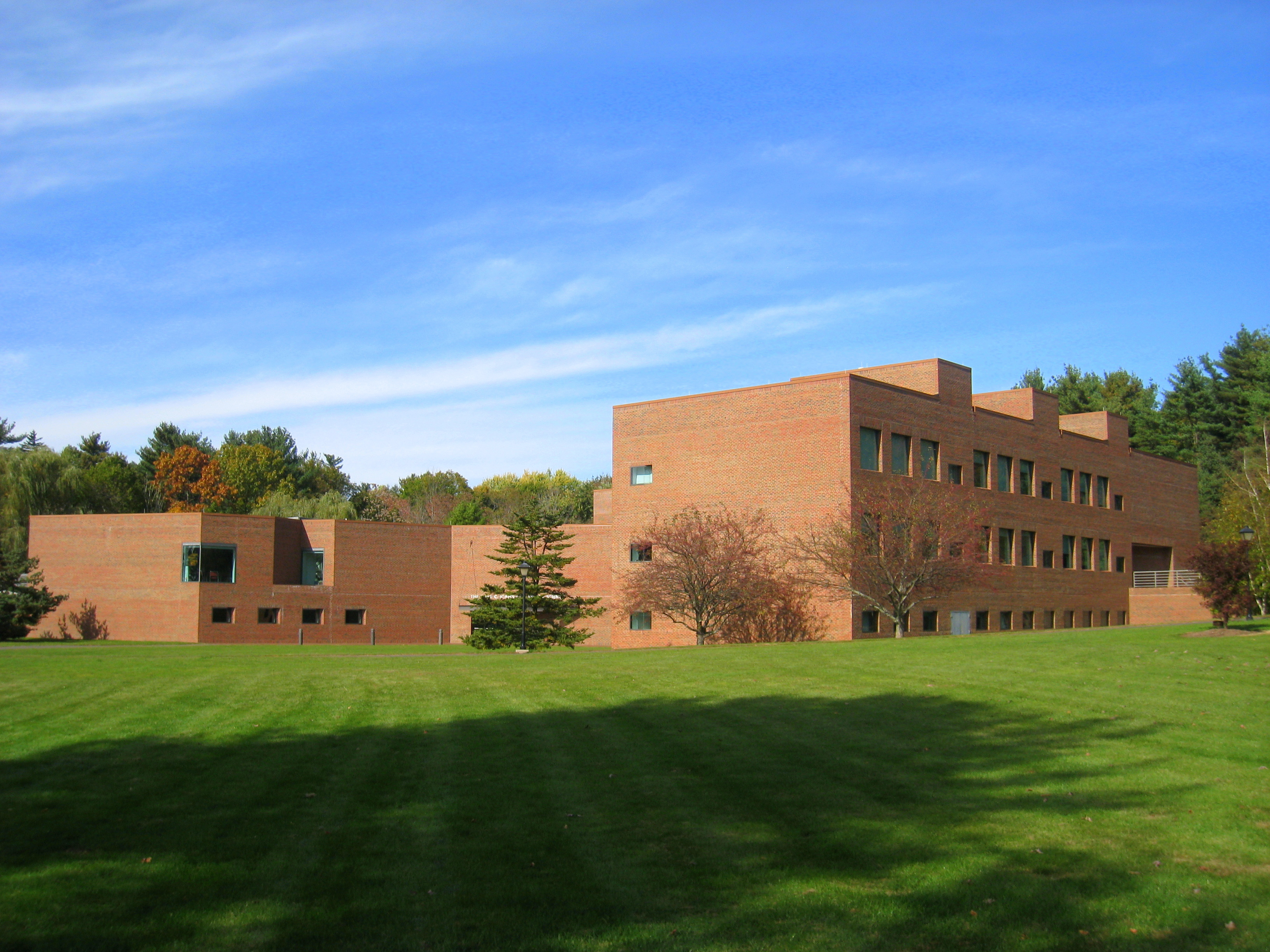 Carl C. Icahn Center for Science, Choate Rosemary Hall, Wallingford, Connecticut, USA. Architect I. M. Pei.